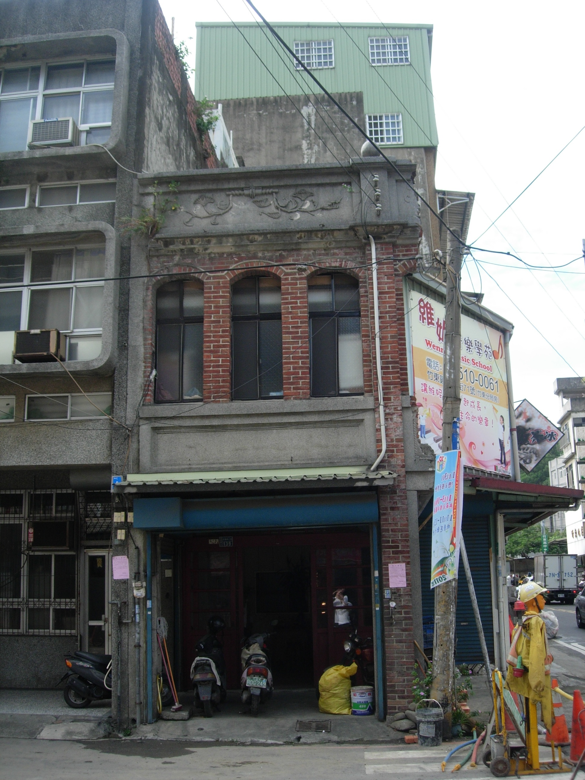 Chutung Old House.中文（台灣）: 竹東街老屋。